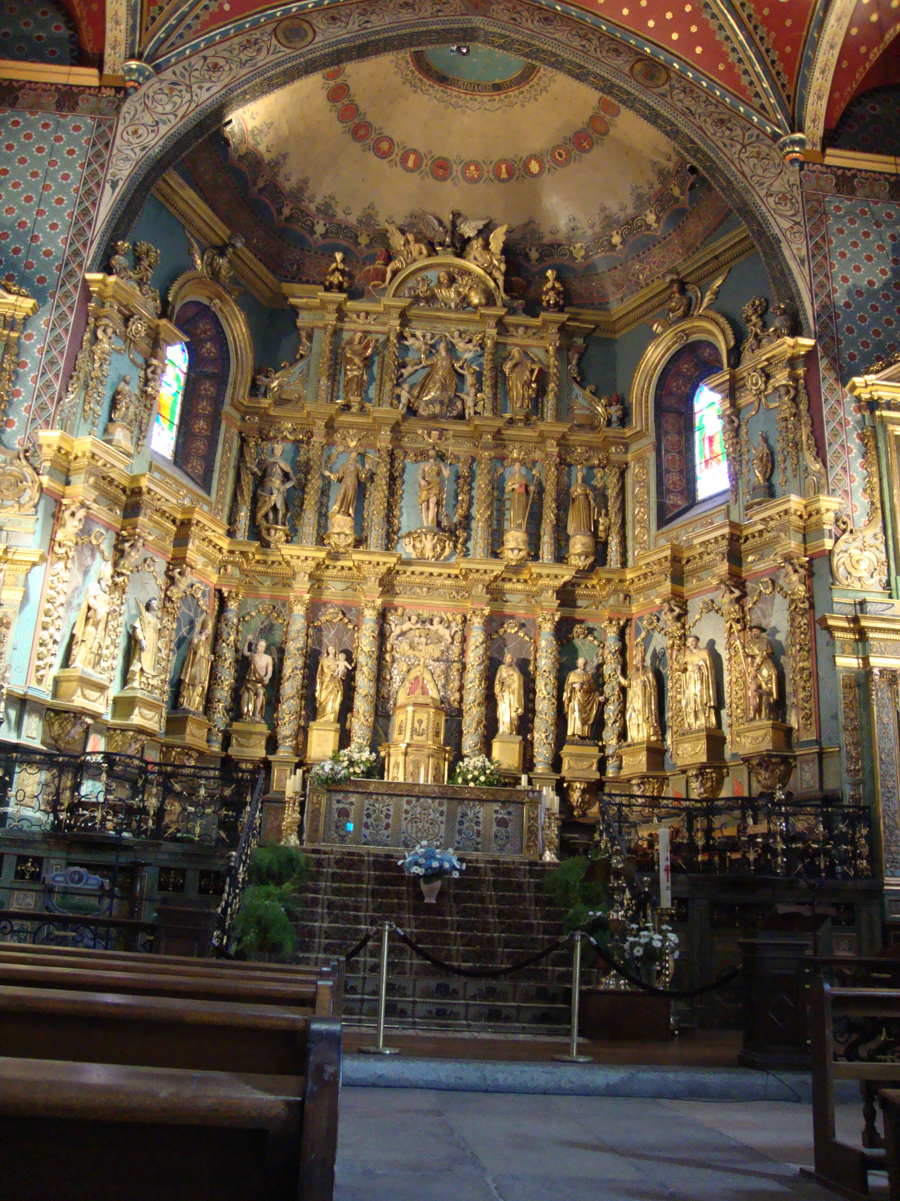 St.Jean-de-Luz, altar piece, church St.Jean-Baptiste.